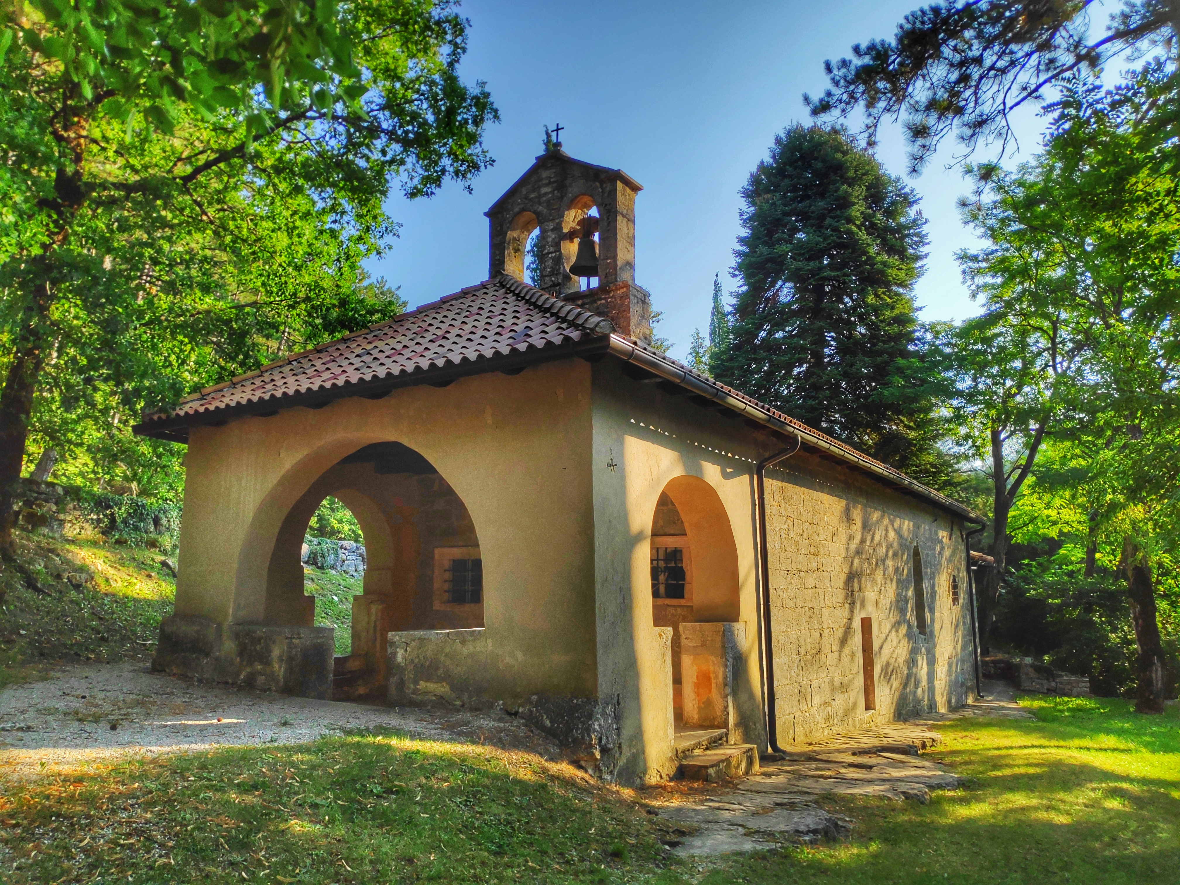 Sveta Marija na Škriljinah